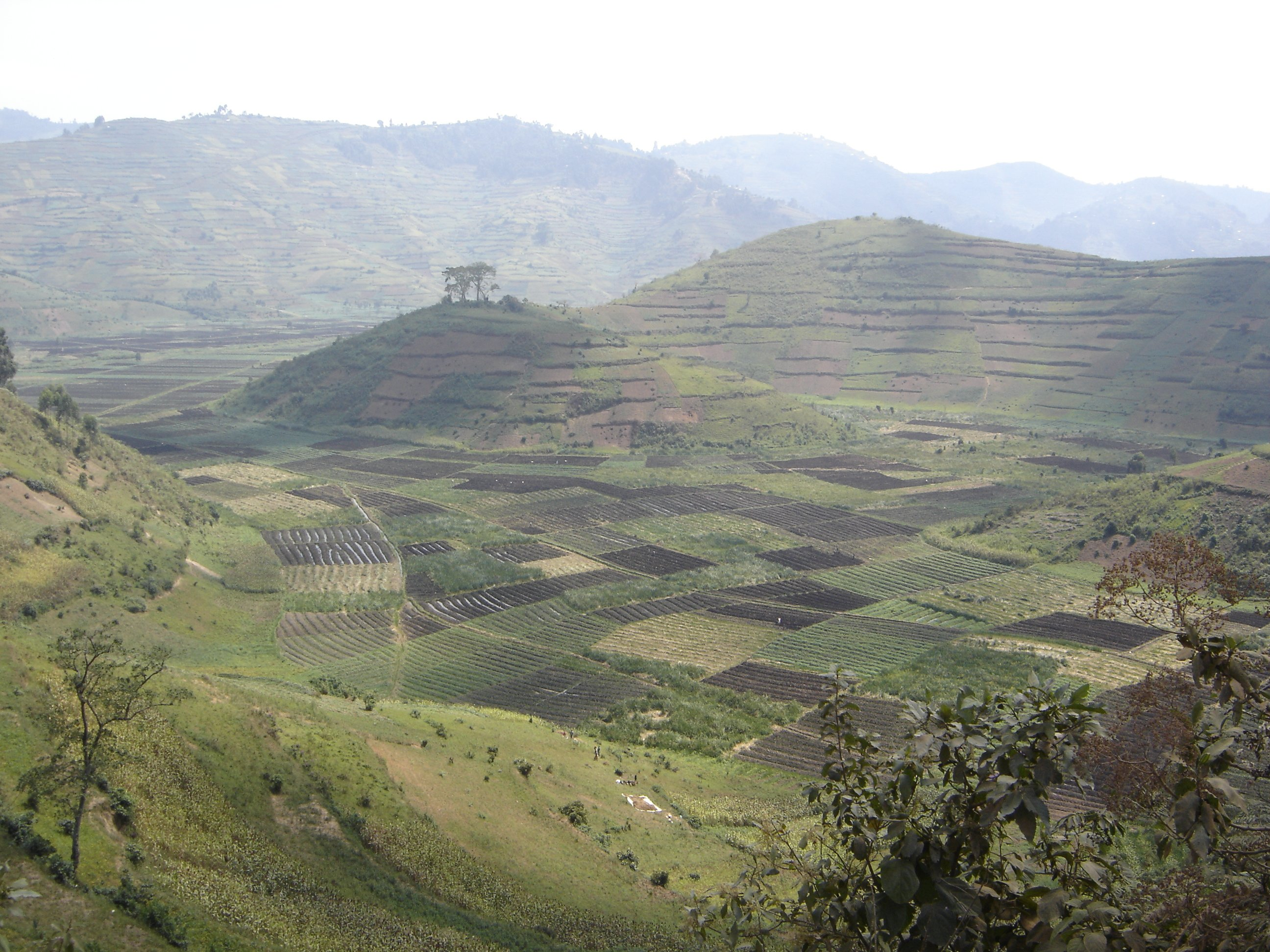 Rwanda is the most densely populated country in Africa AND has very fertile soil. This is how that works out.